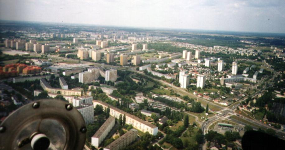 Winogrady district in Poznan